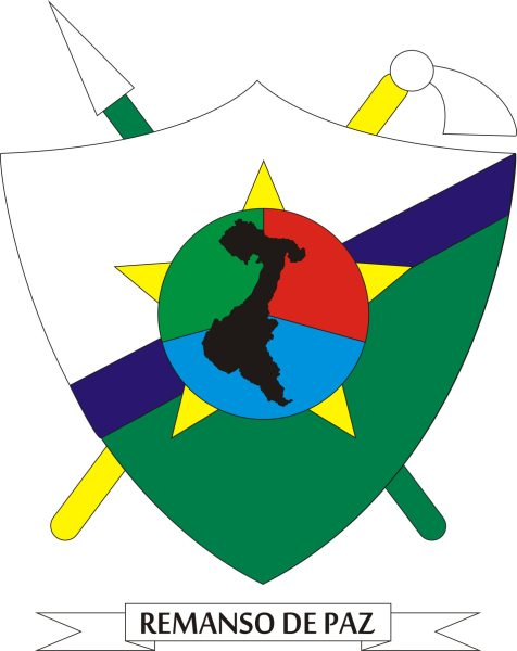 Shield: The sketch of the town inscribed in the center, on a circle divided into three sections, each of 120 degrees, green color: agricultural wealth red: brave ancestor of Panches and pijaos, blue: water wealth rivers Saldaña, Luisa , Cucuana and Coello, and major streams. The bottom shield of the traditional white and green colors (explained on the flag). Protruding ends of intersecting hoe and throws that reinforce the agricultural significance of the people indigenous ancestry.